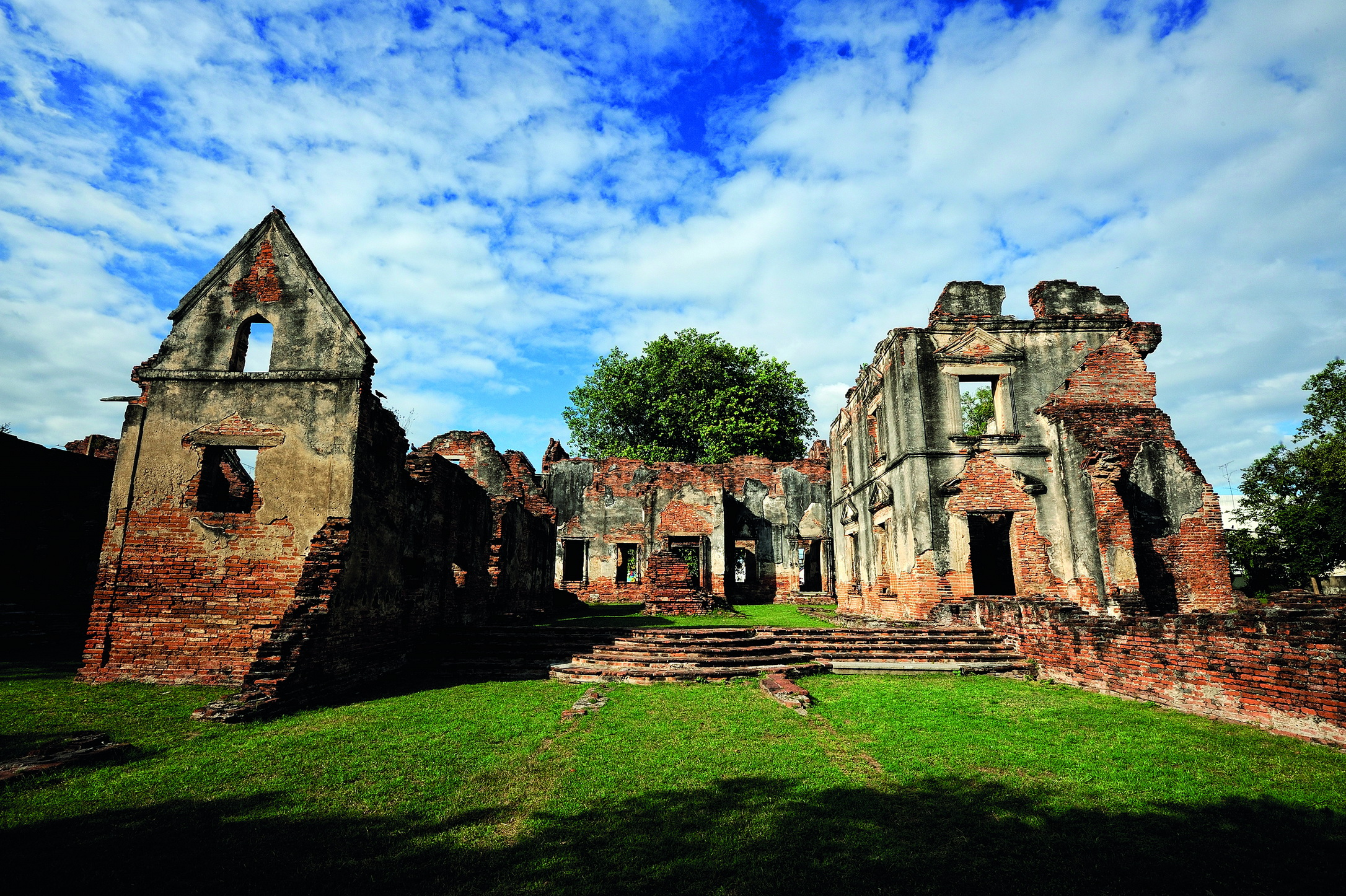 Wichayen House is located on Wichayen road in Tha Hin subdistrict, Muang Lopburi district, north of Phra Narai Ratchaniwet. It was built in 1685, during the reign of King Narai, the Great, as the residence for the first French envoys, led by Chevalier de Chaumont. At that time, a Greek court official named Constantine Phaulkon, later was promoted to “Chao Phraya Wichayen” or “Ok-Ya Wichayen”, resided in the same area of the residence. Thus, locals called this residence “Wichayen House”. Built in the period of the late Ayutthaya kingdom by a French constructor, the residence was designed in European architecture. The complex contains 1. The main two-storey masonry building serving as the residence for the French envoys and the long, narrow single storey building serving as a reception hall; 2. A Catholic church with a belfry; and 3. A cooking area, a water tank, and a well at the rear. The Department of Fine Arts registered as a National Historic Site on 2nd August, 1936.